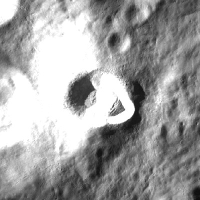 LRO image of Ryder crater, on the far side of the moon, from the Wide Angle Camera (WAC).